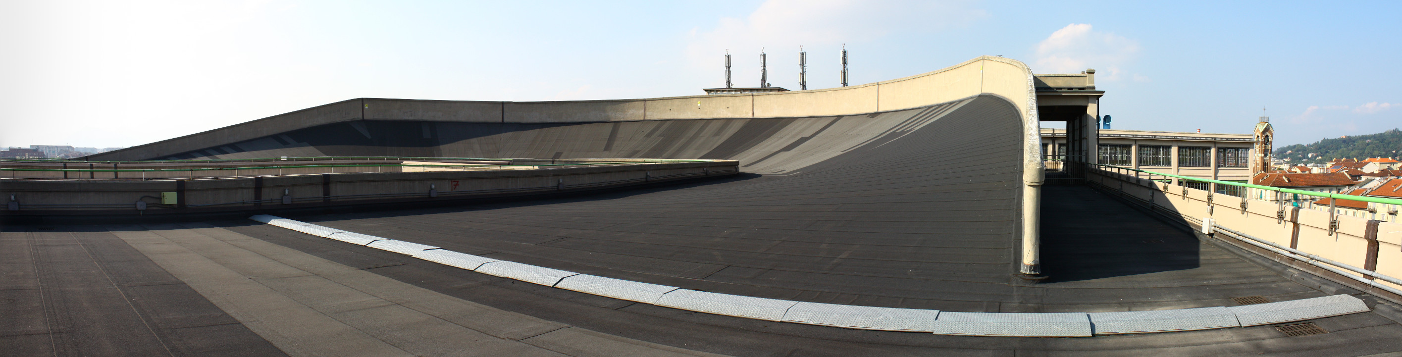 Rooftop race and test track on top of the FIAT Lingotto factory in Turin.